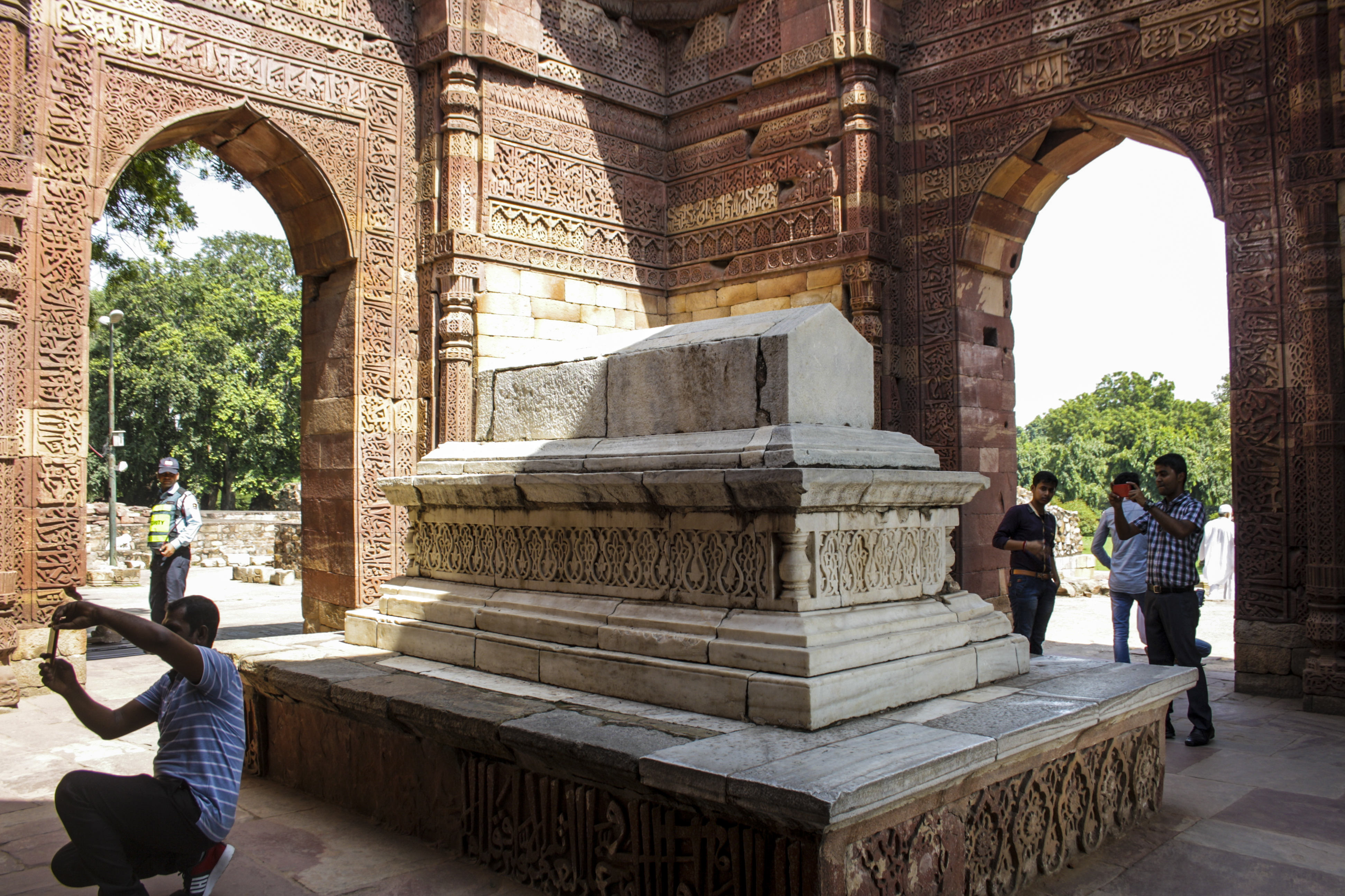 This is the tomb of Shamsuddin Iltutmish (1211-36), son-in-law and successor of Qutbuddin Aibak, lies to the north-west of the Quwwatul-Islam mosque, inside Kutb Complex, Delhi, India. It was built in about 1235 by Iltutmish using the materials obtained from demolition of temples.